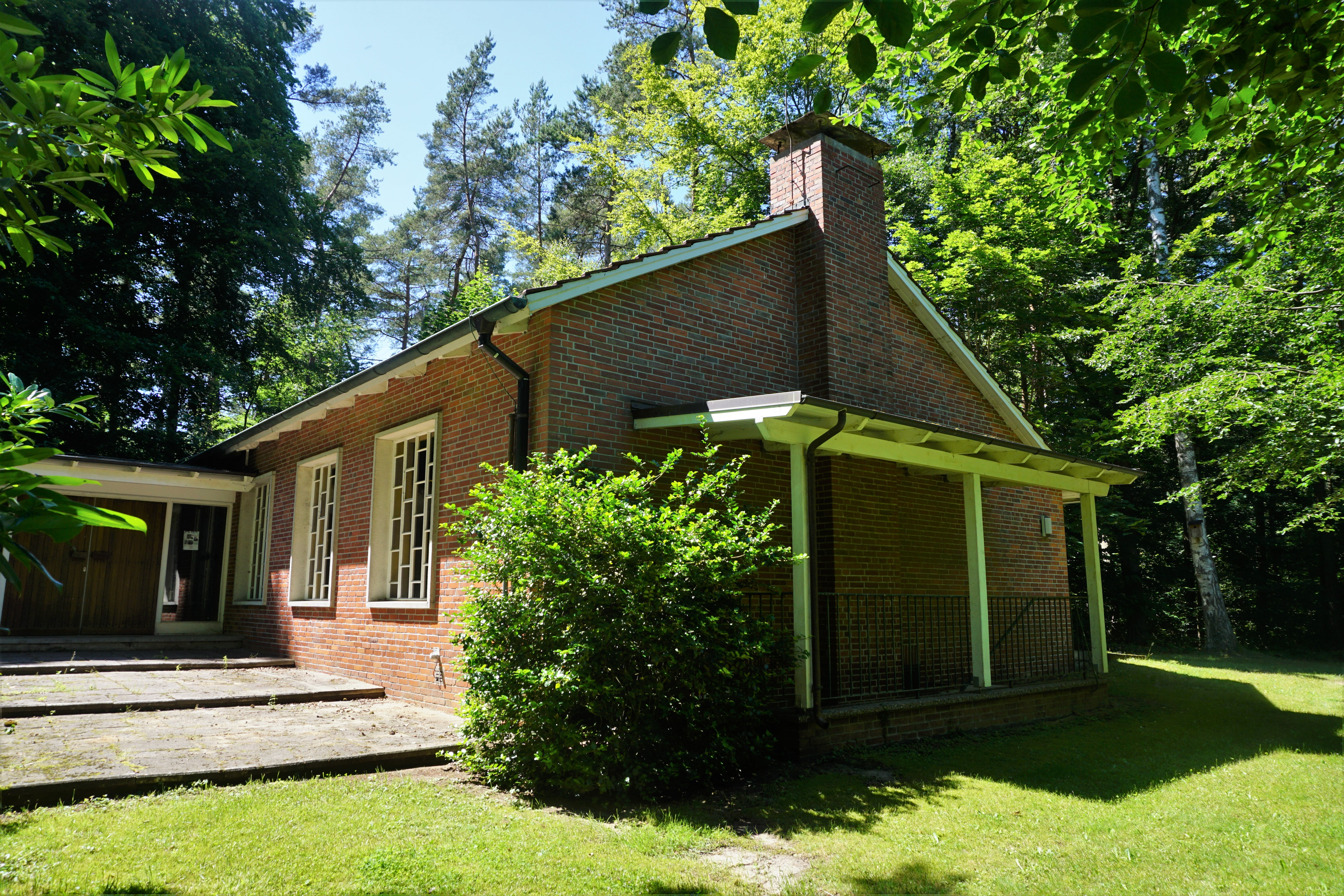 Chapel building of the Saint Mauritius Chapel in Bohndorf in the district of Uelzen.